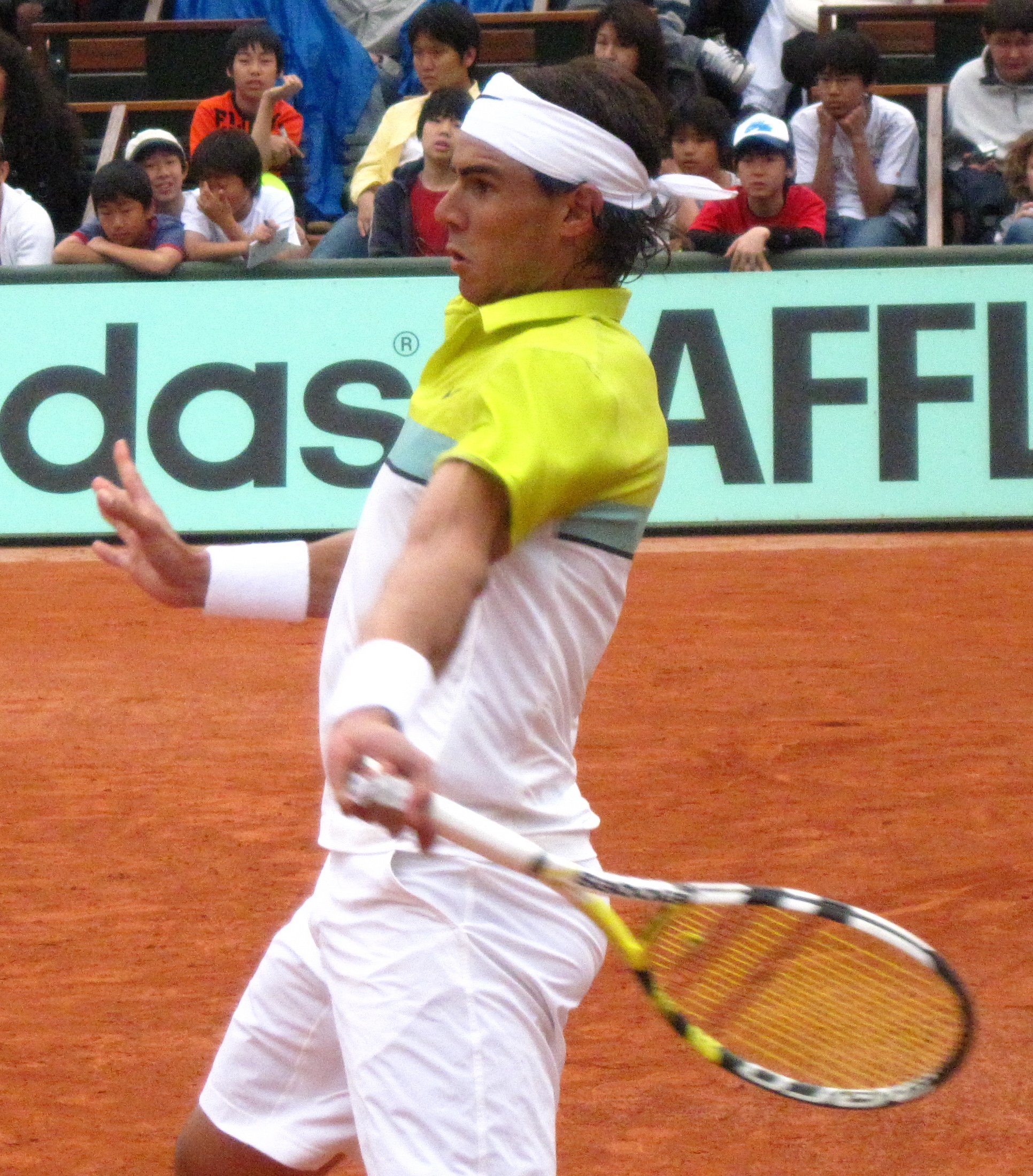 Rafael Nadal at 2009 Roland Garros, Paris, France